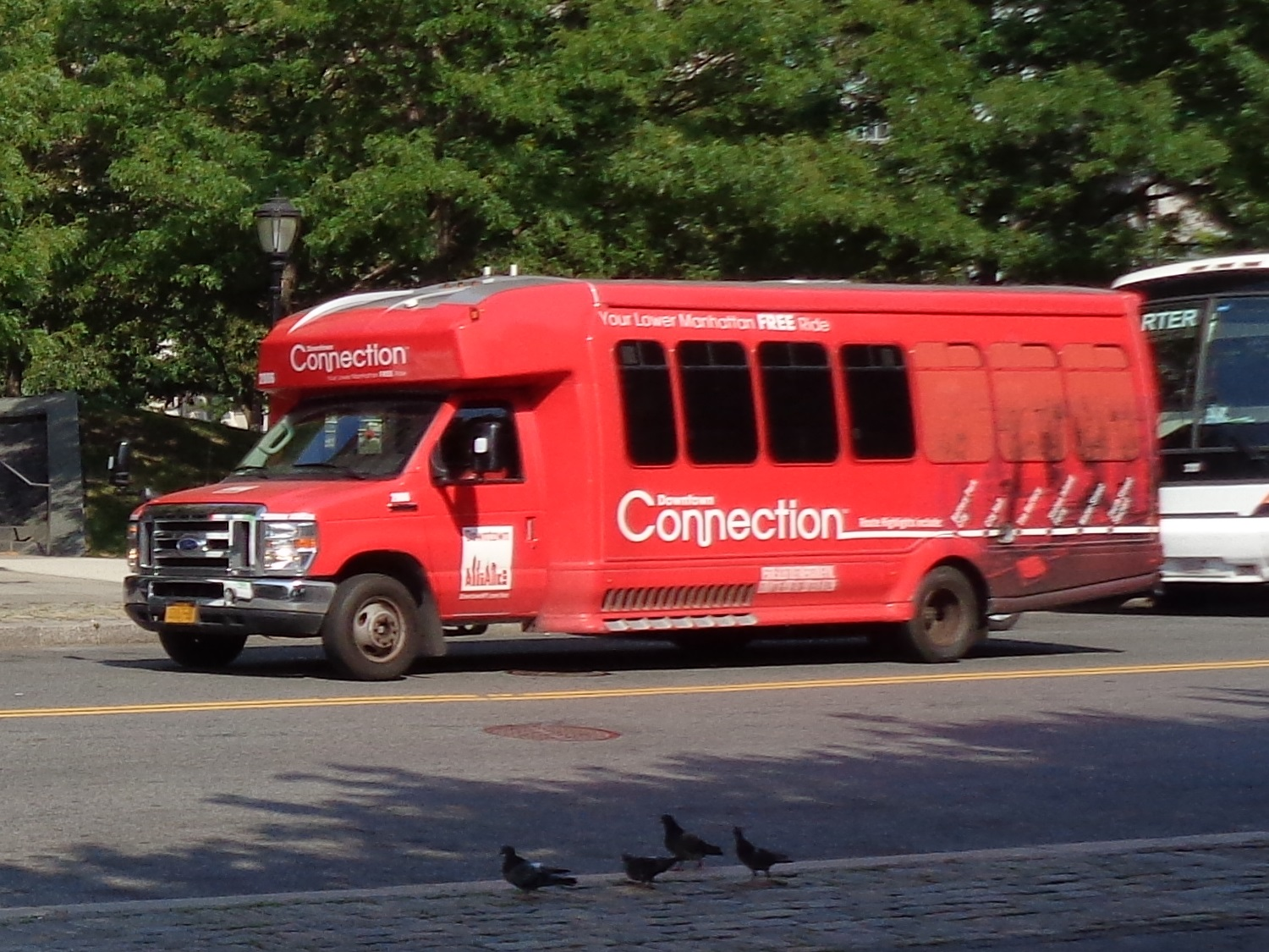 A Downtown Connection bus in front of Robert F. Wagner Jr. Park in Battery Park City, Manhattan.